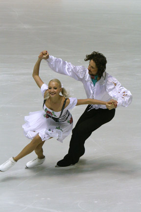 2008 European Figure Skating Championships - Oksana Domnina and Maxim Shabalin